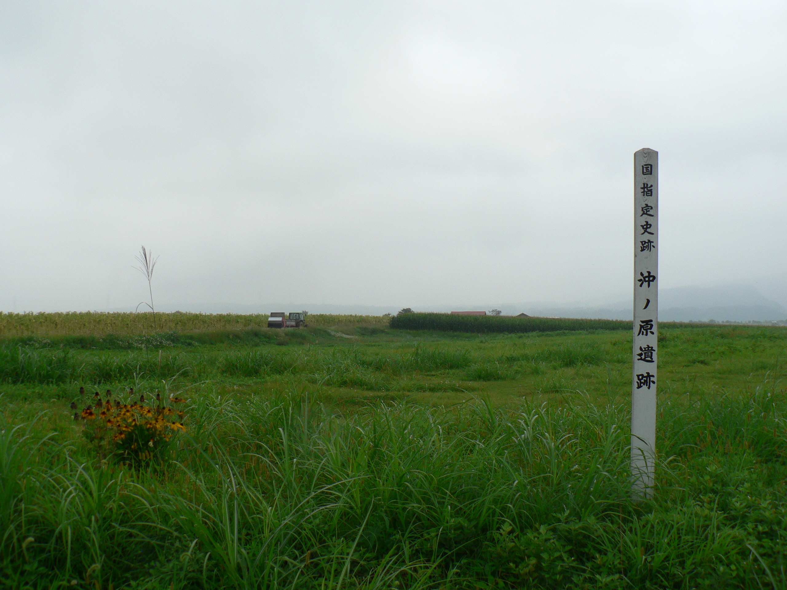 This is the present condition of Okinohara-iseki, which is one of archaeological site on Jomon periode in Japan, Niigata